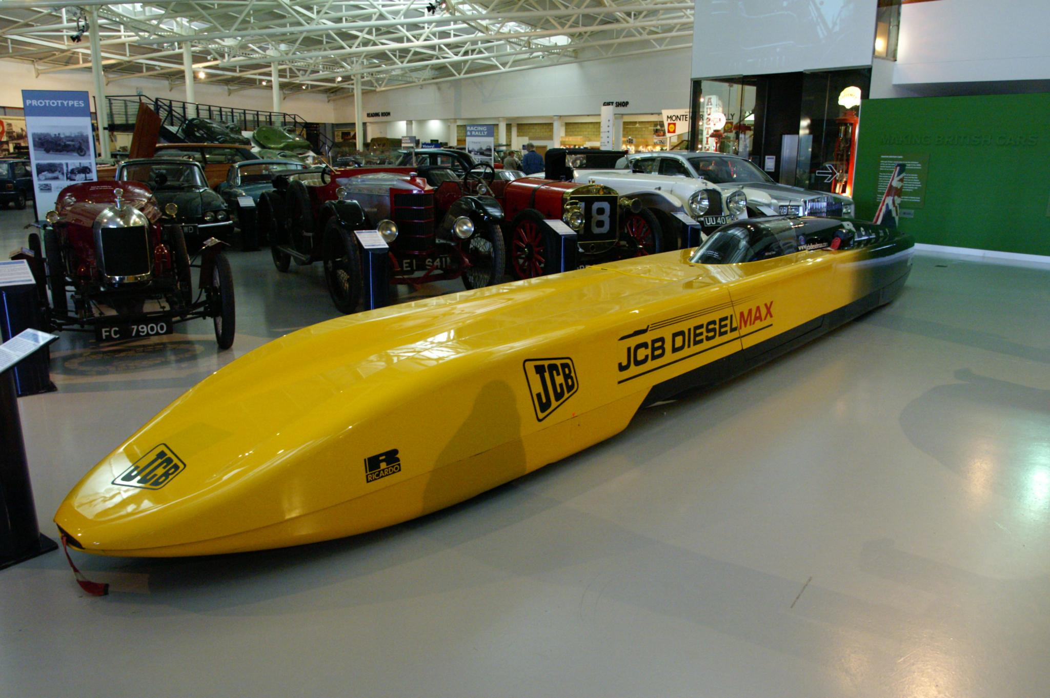 Heritage Motor Centre, Gaydon, Warwickshire The World's Fastest Diesel Car